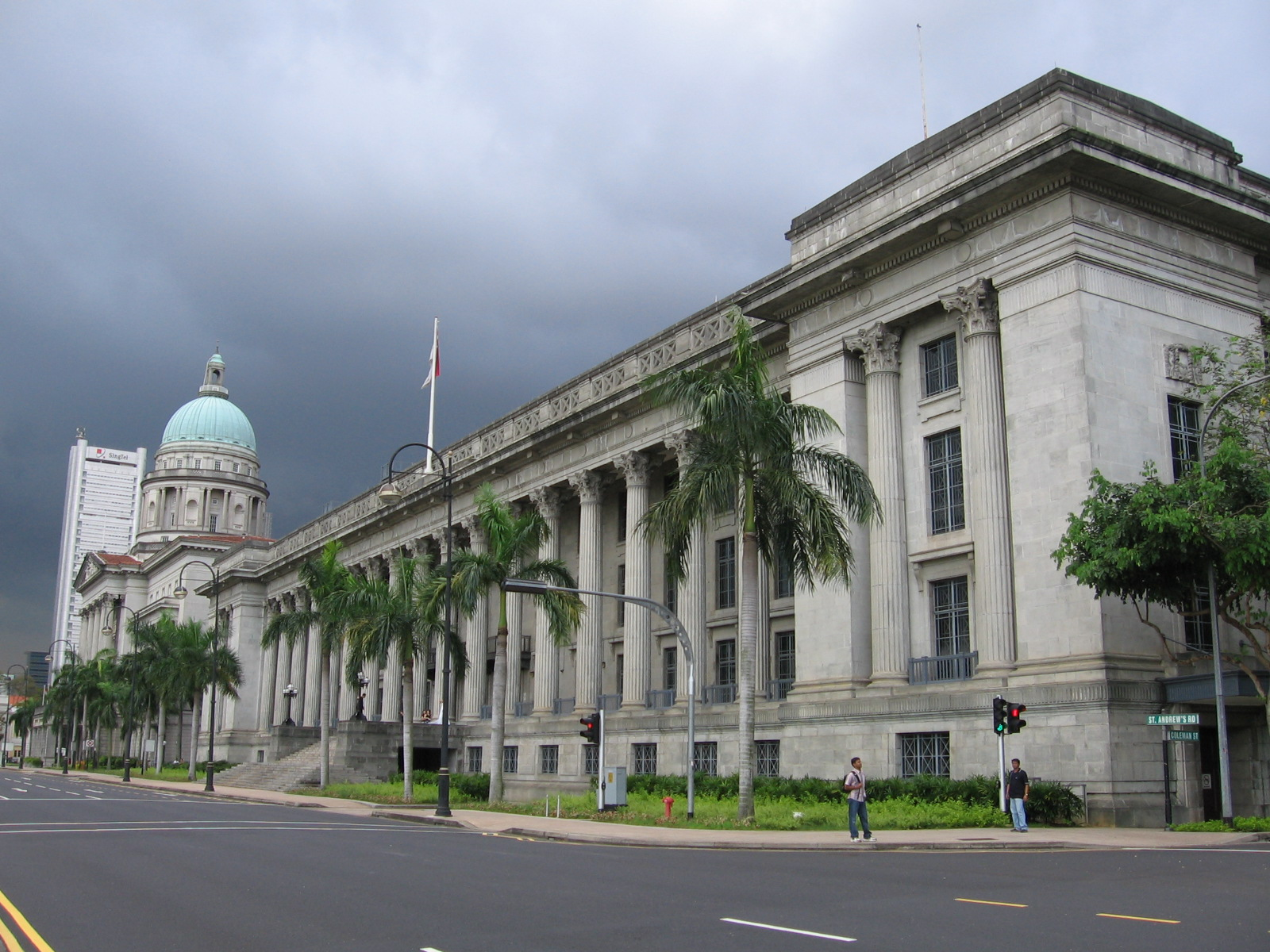 City Hall and Old Supreme Court Building. Taken by User:Sengkang of ENglish.Wikipedia in Jan 2006.